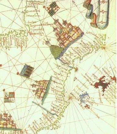 Image of cities and flags in Spain. Atlas from Joan Martines, made in 1578.